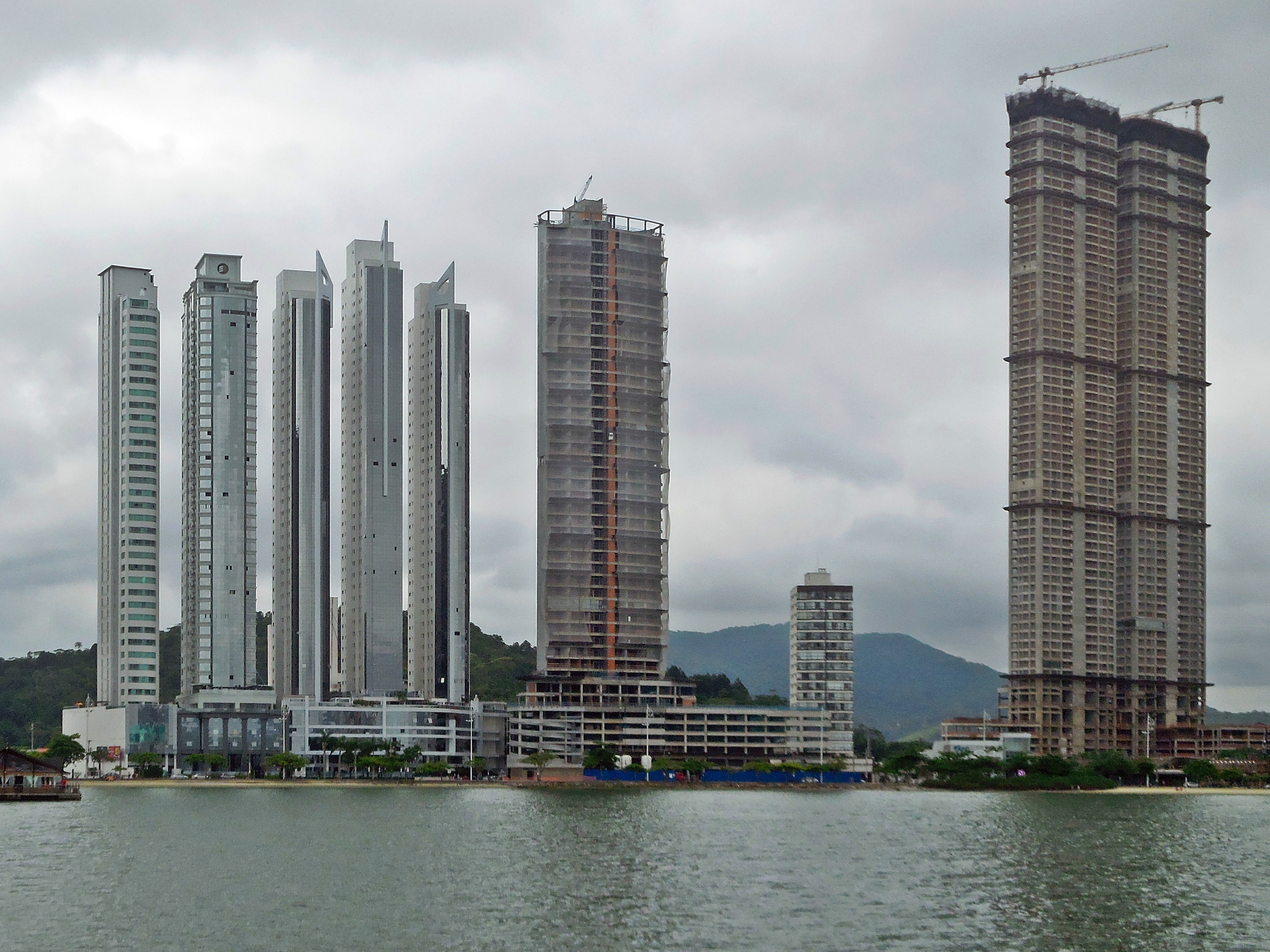 From left to right: Barra Tower; Baturité Lounge House; Ibiza Towers south, central and north; Pharos; and Yachthouse Residence Club Towers 1 and 2 in december 2018, in Balneário Camboriú, Santa Catarina, Brazil.